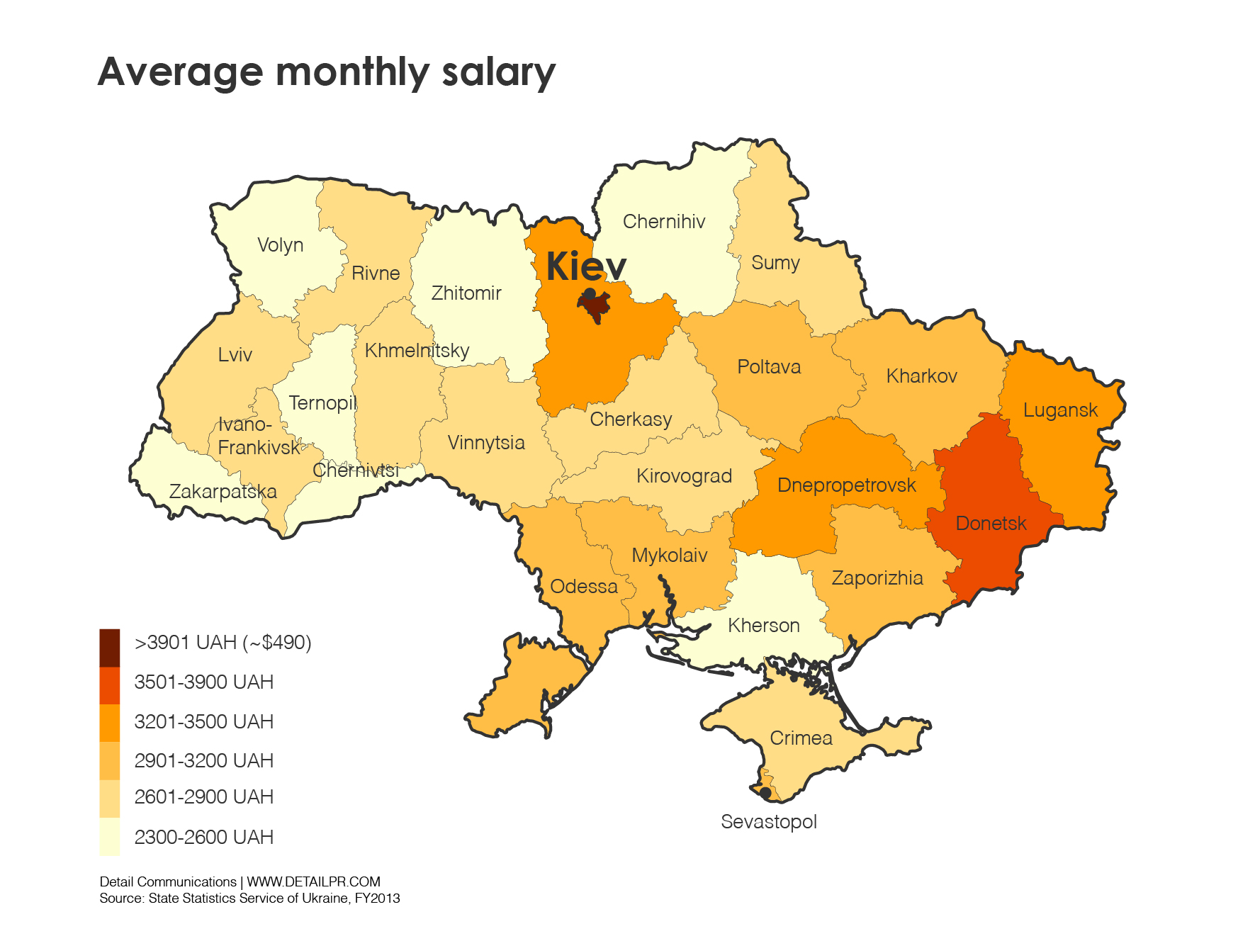 Average monthly salary in Ukraine for the full year of 2013.